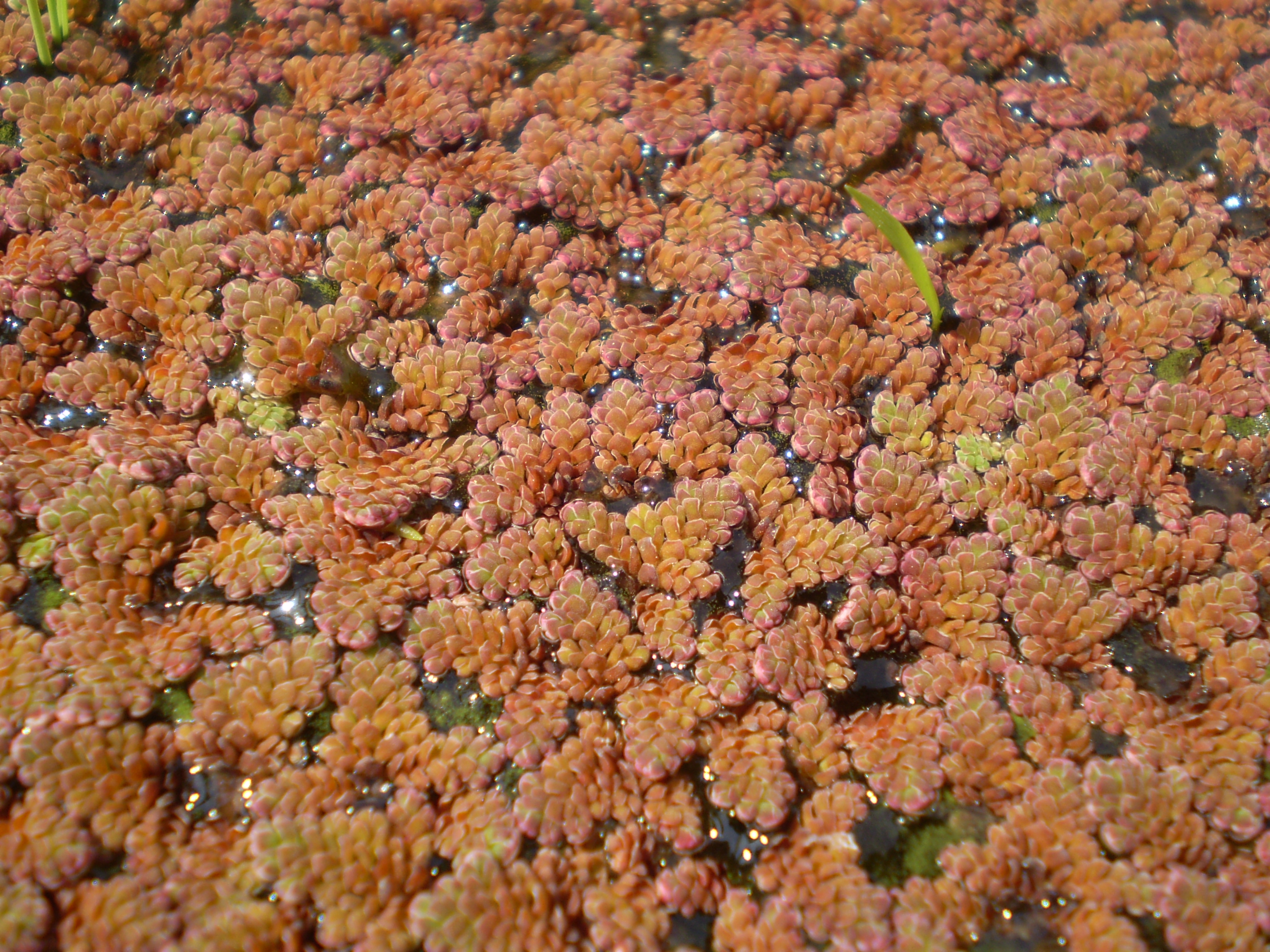 Azolla imbricata(Akaukikusa)